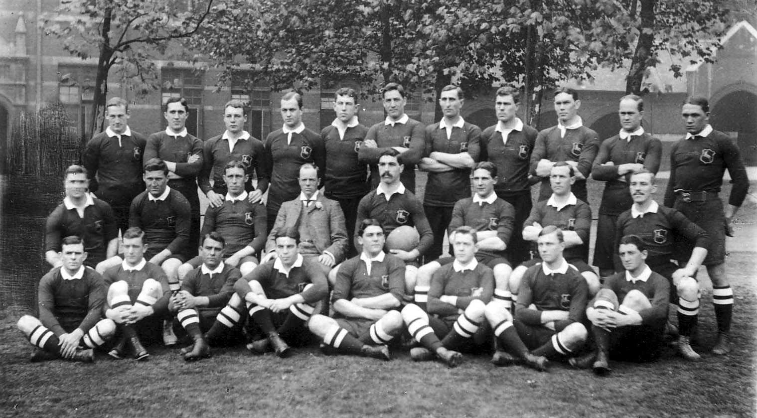 The South African rugby team posing in London during their tour to Europe